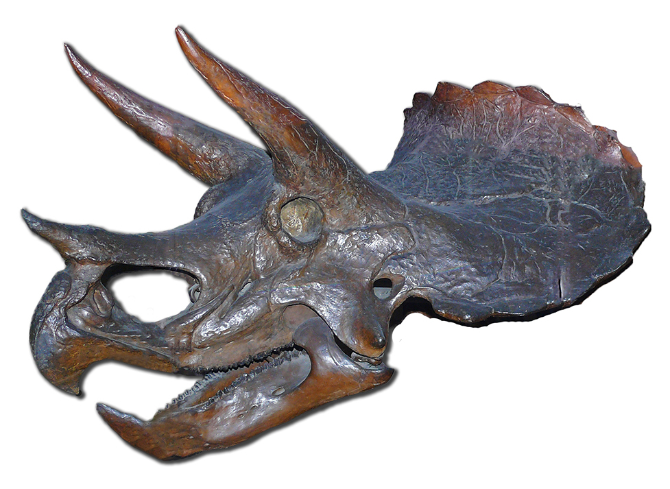 Triceratops skull, London Natural History Museum. This is not a cast, but a papier mâché model.[1]